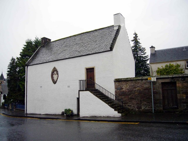 The Leighton Library, Dunblane. The oldest private library in Scotland. Built to house the books of Robert Leighton, Bishop of Dunblane (1611-1684). A collection of 4,500 books from 1505-1840 in 80 languages.